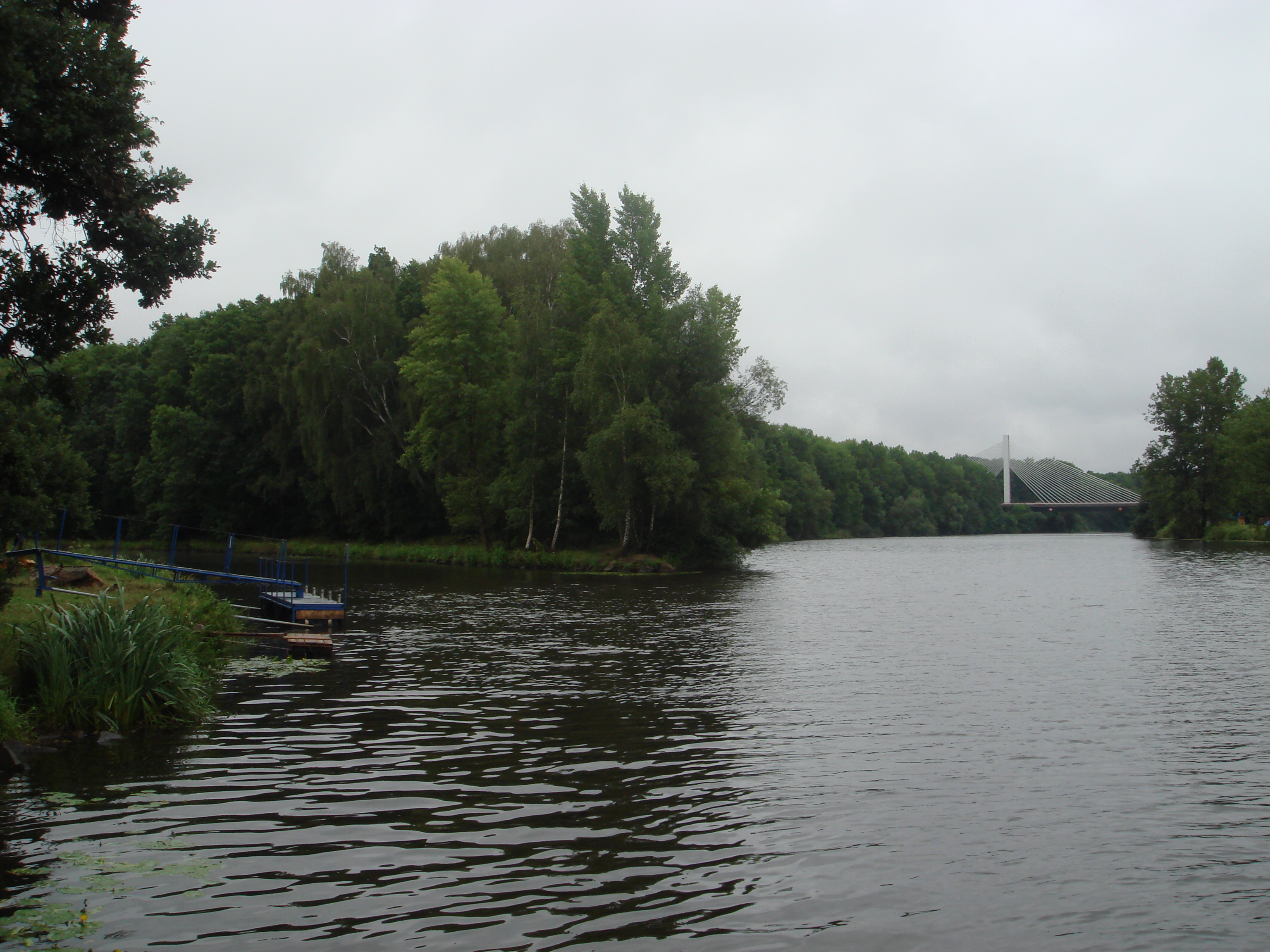 Confluence of Labe and Cidlina (Central Bohemian Region, Czech Republic).